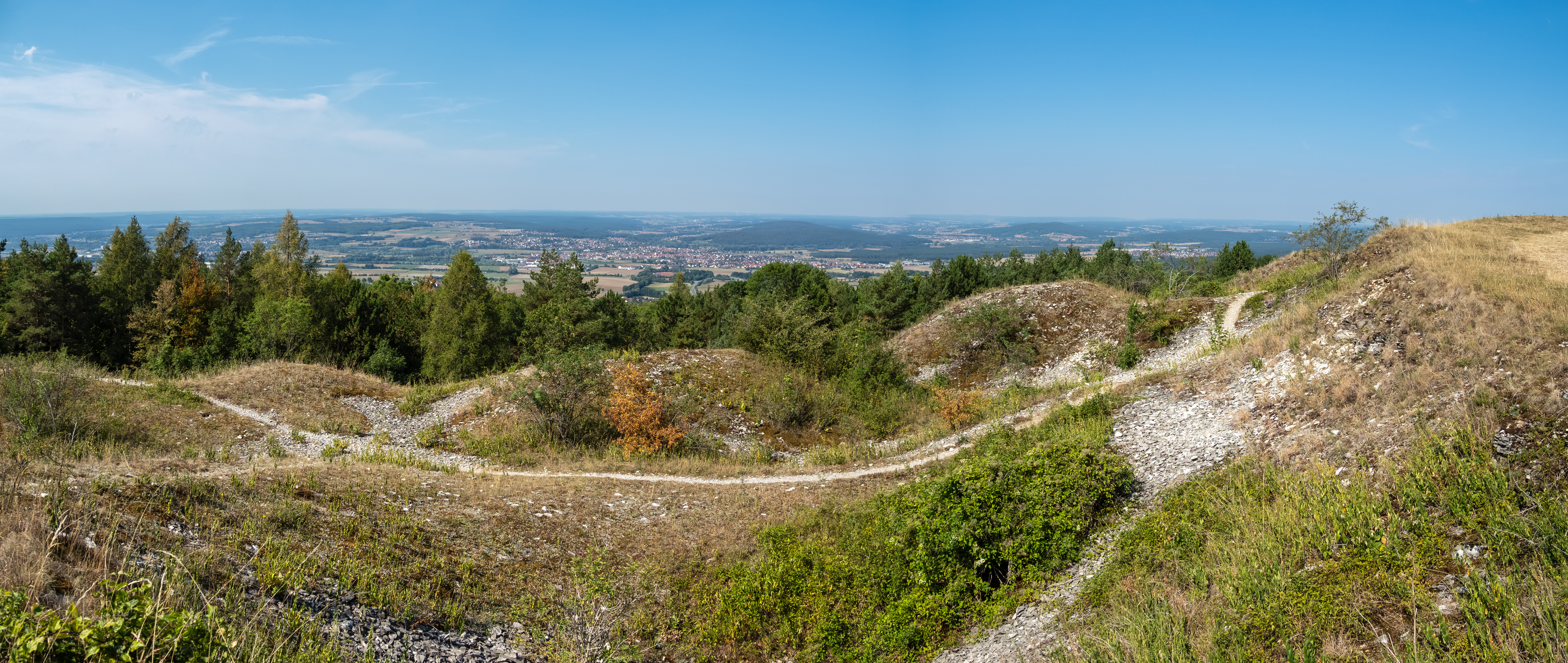 Friesener Warte in the Franconian Switzerland